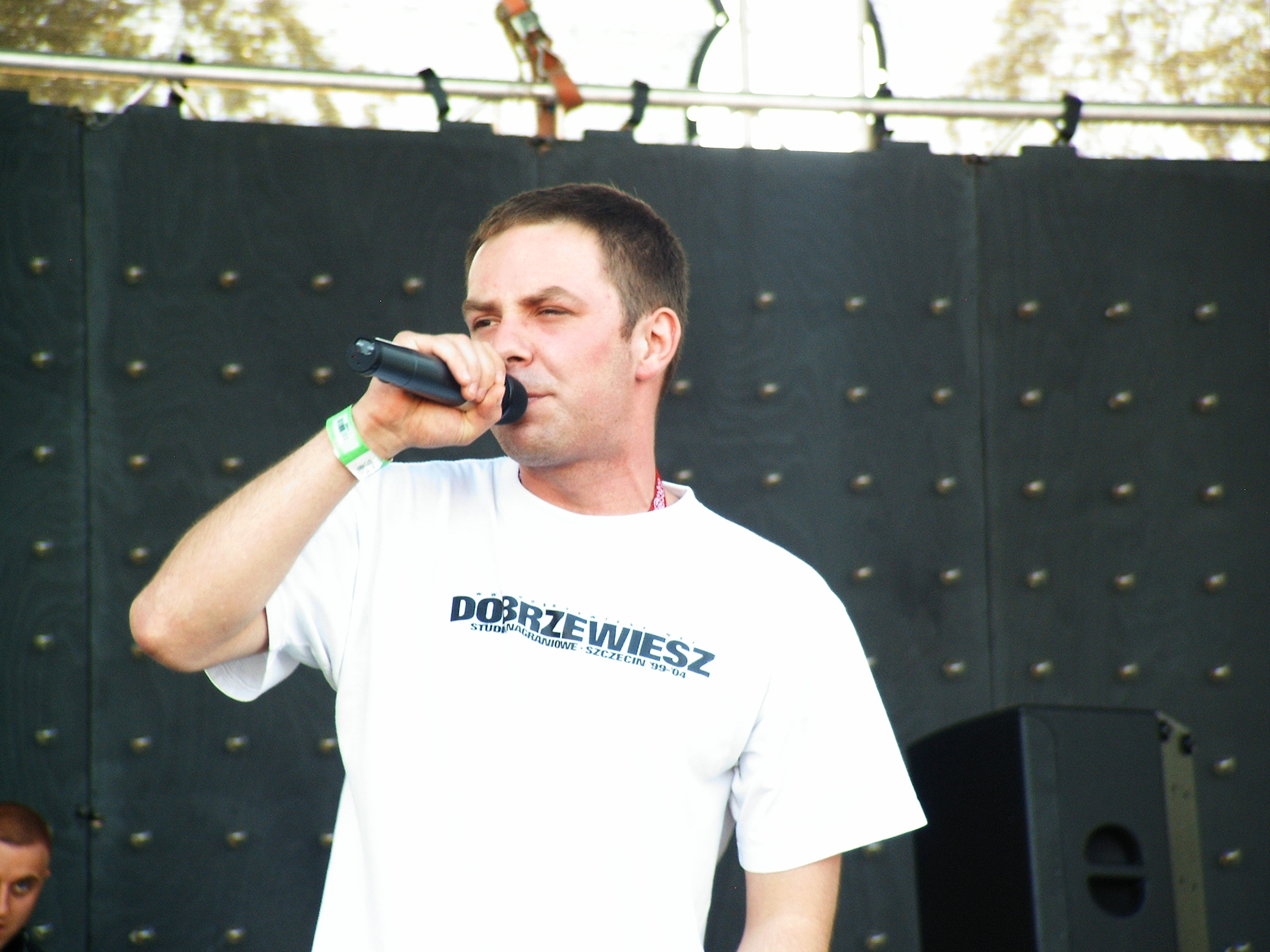 Polish Rapper Łona at Hip Hop Kemp 2006